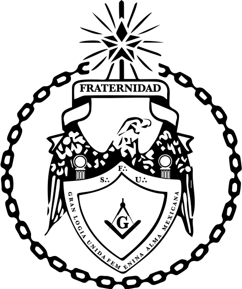 Seal of the Gran Logia Unida Femeninia "Alma Mexicana"